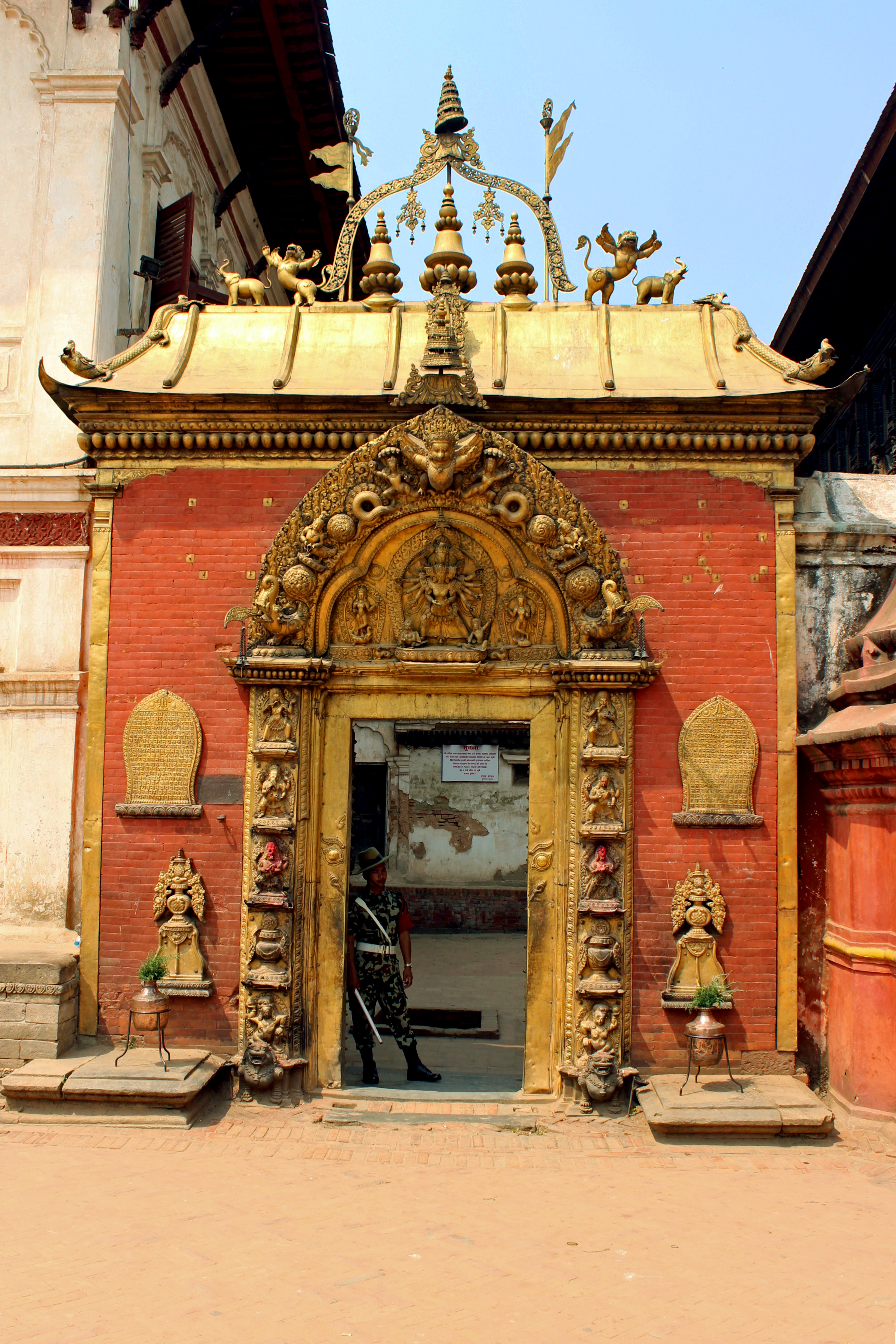 Golden Gate, at the Royal Palac, Durbar Square in Bhaktapur (Nepal)